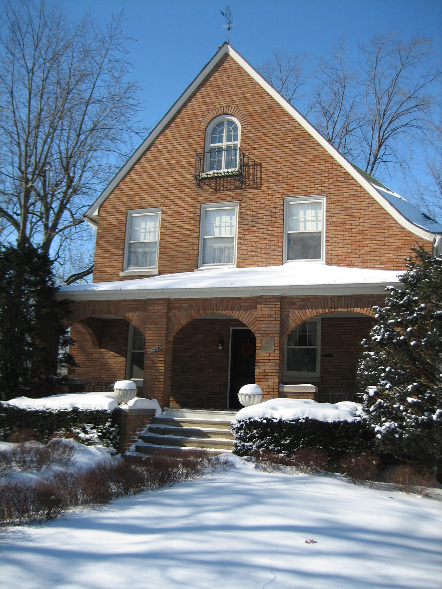 431 Somonauk St., Floyd E. Brower House (File name is incorrect, the correct name of the house is the Floyd E. Brower House, Sycamore, Illinois. Sycamore Historic District, National Register of Historic Places.